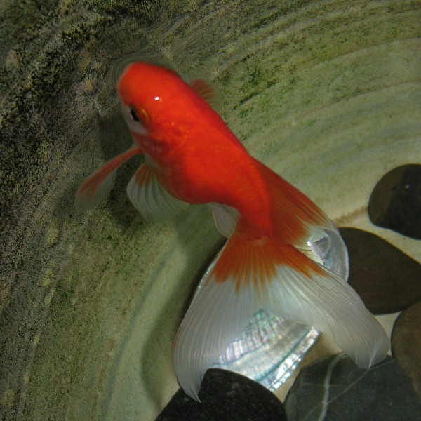 Red and white fantail goldfish.